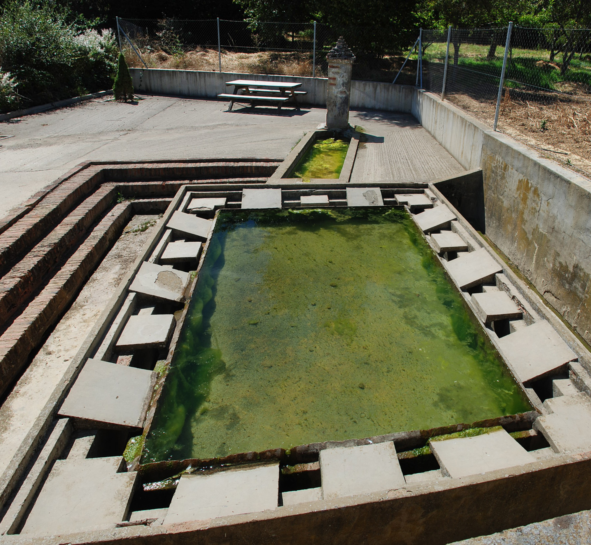 Fountain at Valles de Valdavia (Palencia, Castile and León).